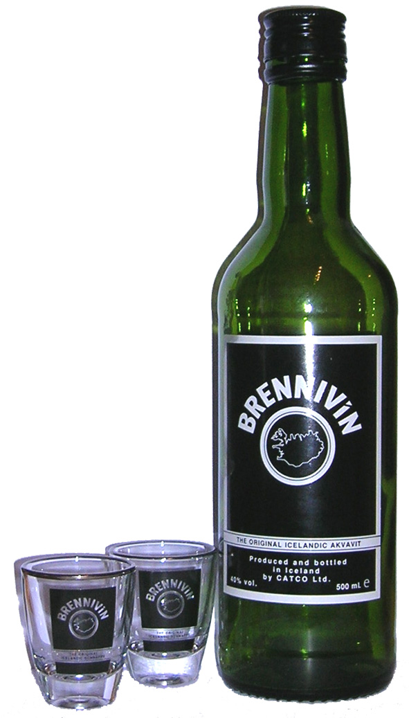 Brennivin is an icelandic alcoholic beverage